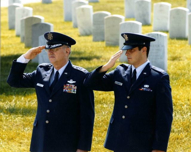 Greg Ball in Arlington National Cemetery.